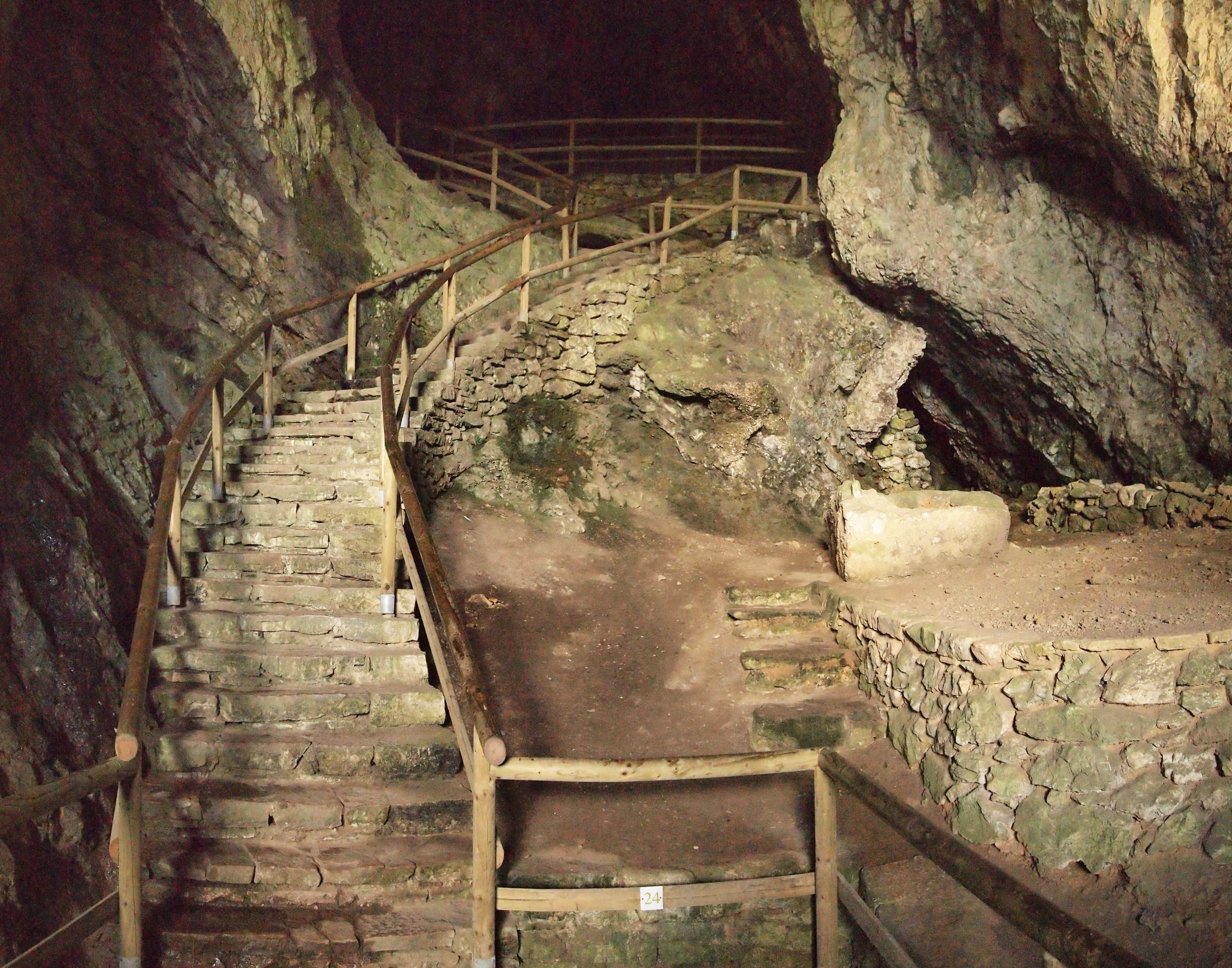 Stairs into the cave in Predjama Castle. This photograph was taken with a Olympus E-PL1.